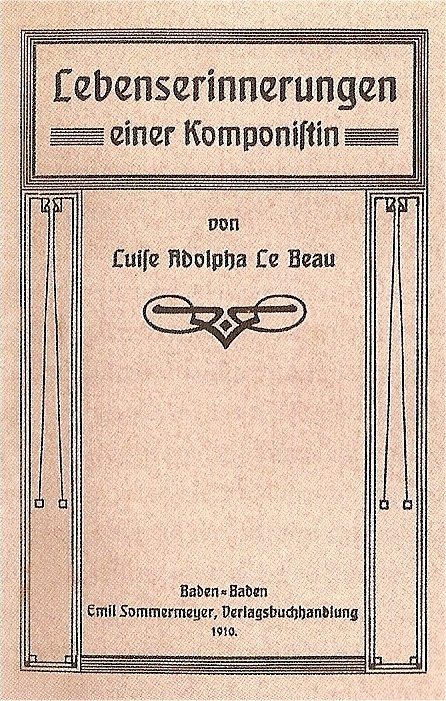 Luise Adolpha Le Beau, memoirs of a composer, Baden-Baden 1910, original cover